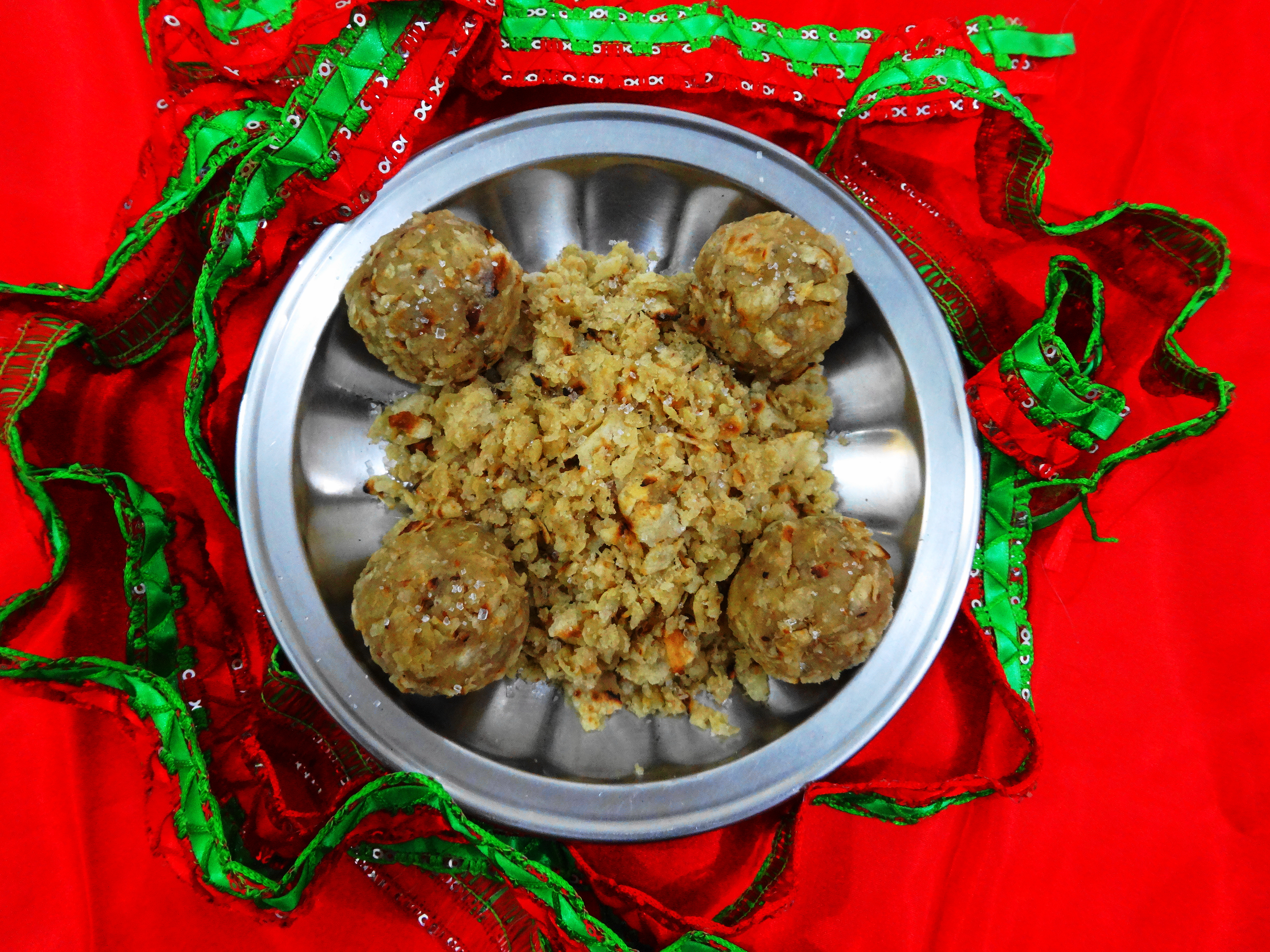 Choori, چُوری، میاں مٹّھو چُوری کھائو گے، میاں مٹھّو چوُری کھانی اے